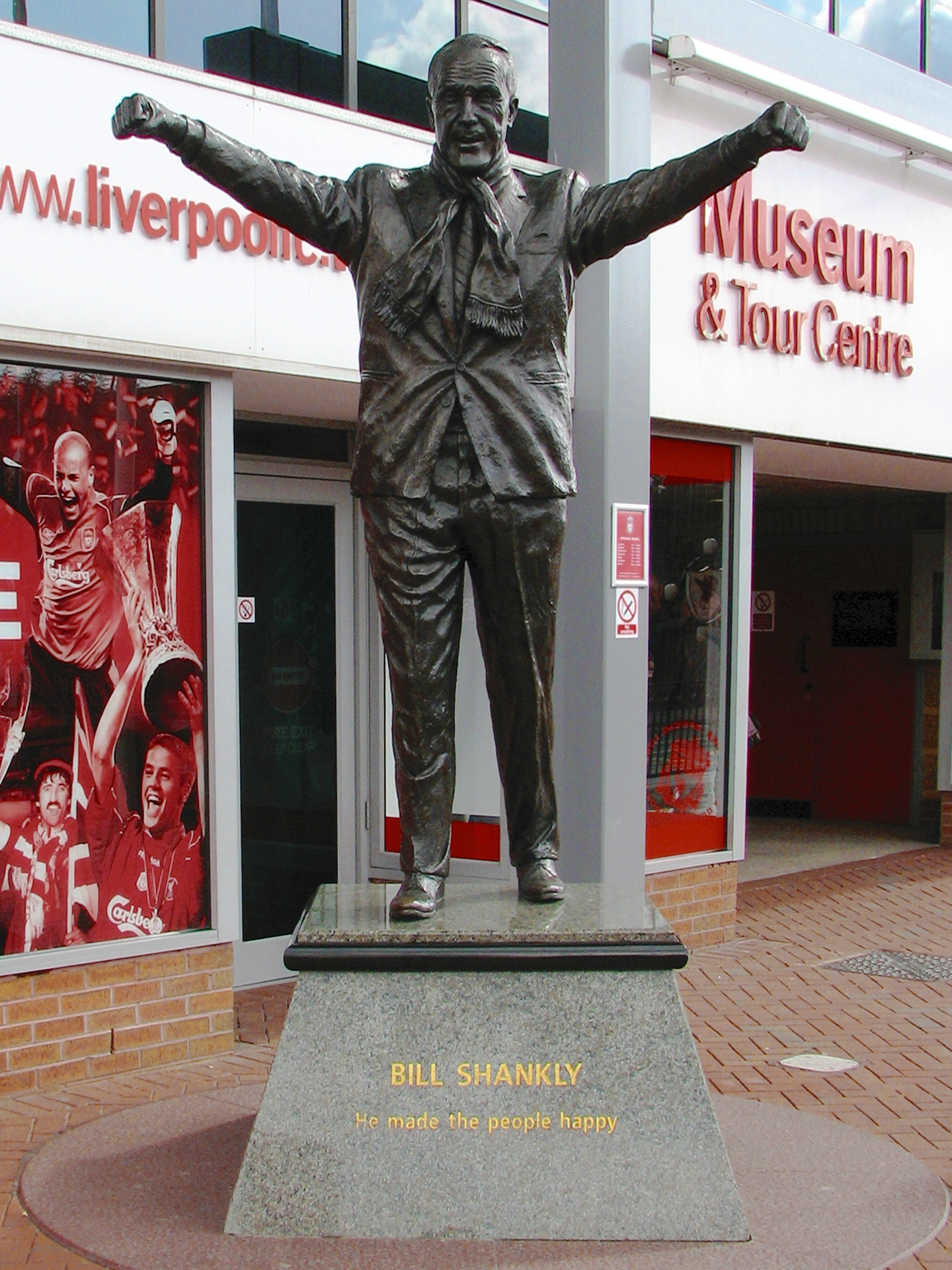 Statue of Bill Shankly outside Anfield in Liverpool, England